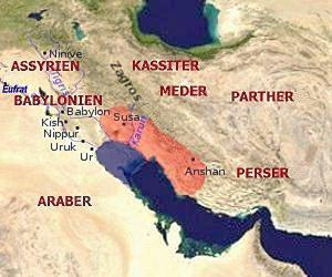 Swedish translation of Image:Elam Map.jpg